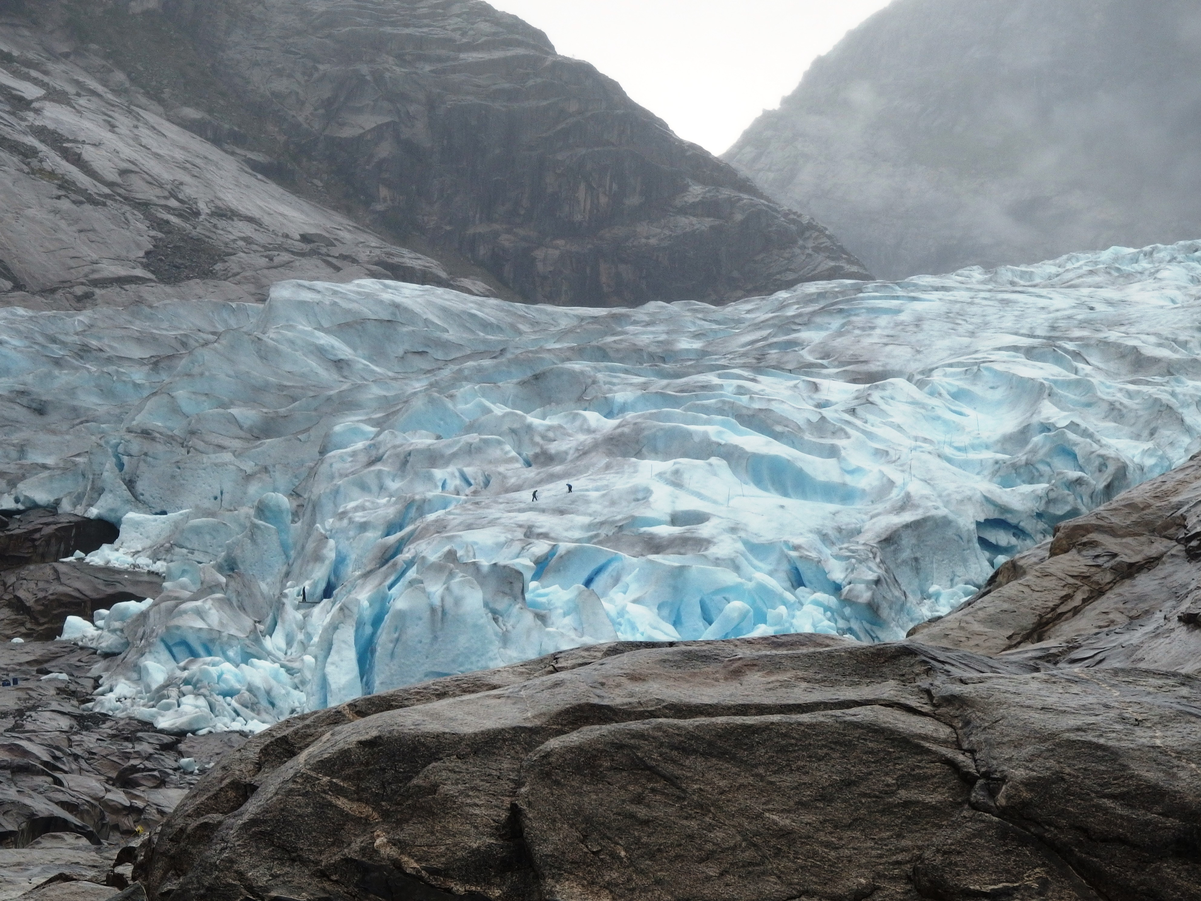 Nigardsbreen (Nigard Glacier), a glacier arm of the large Jostedalsbreen glacier.Jostedalen valley, Luster municipality, Sogn og Fjordane county, Norway.